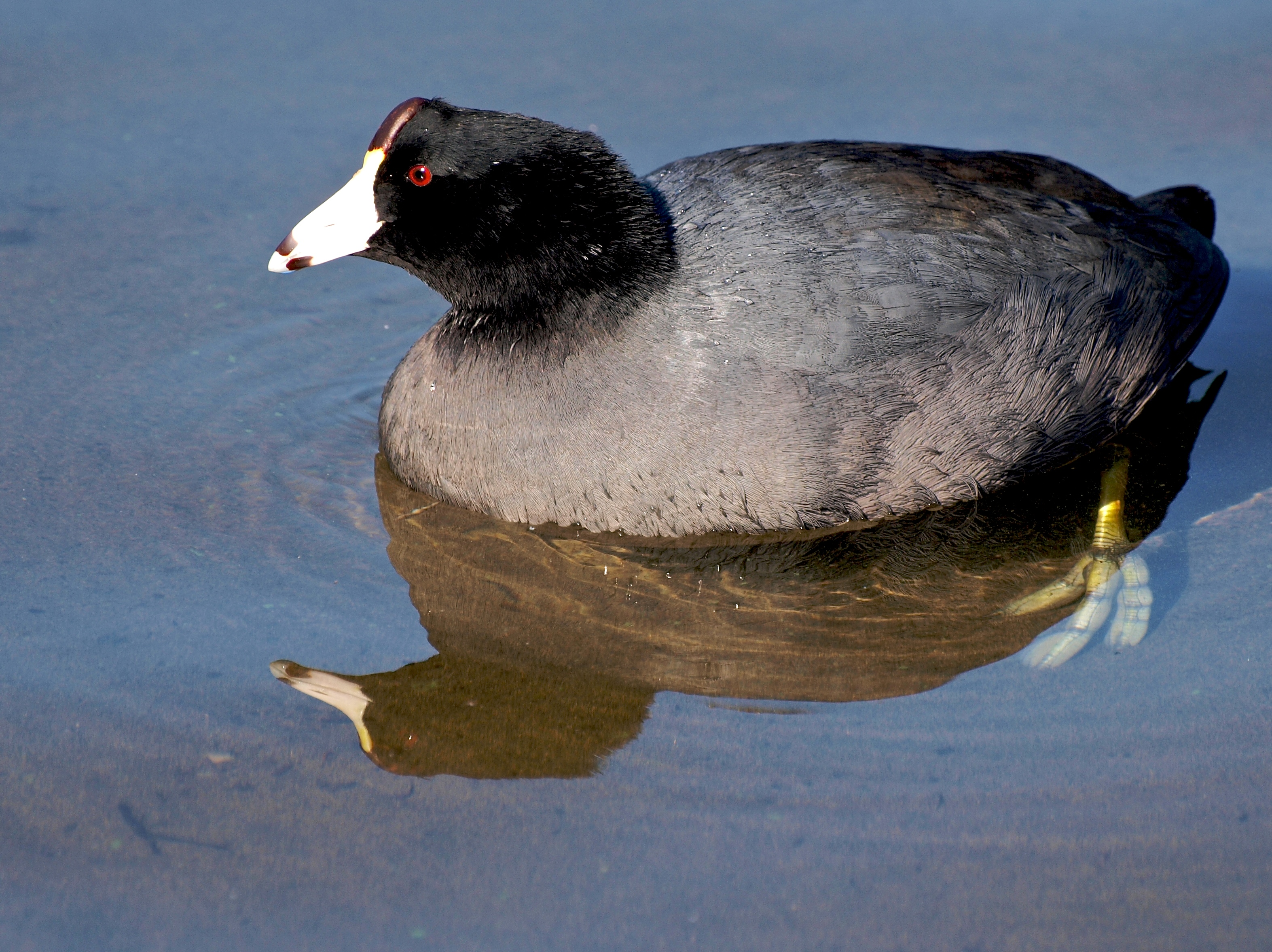 Fulica americana At Mountain Lake Park - San Francisco - Presidio